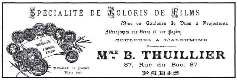 Letterhead early 1900s from Thuillier colouring workshop